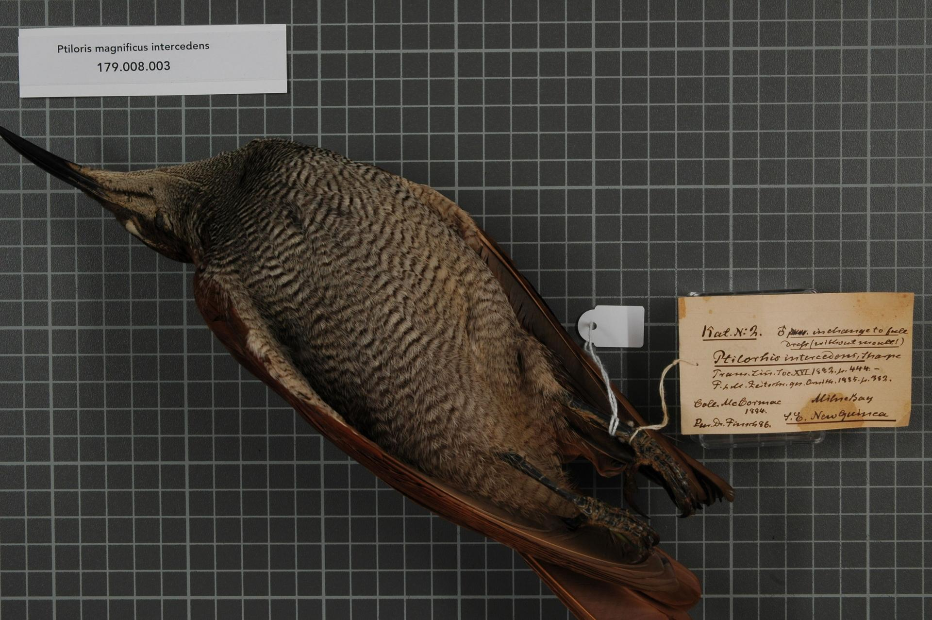 Ptiloris magnificus intercedens Sharpe, 1882